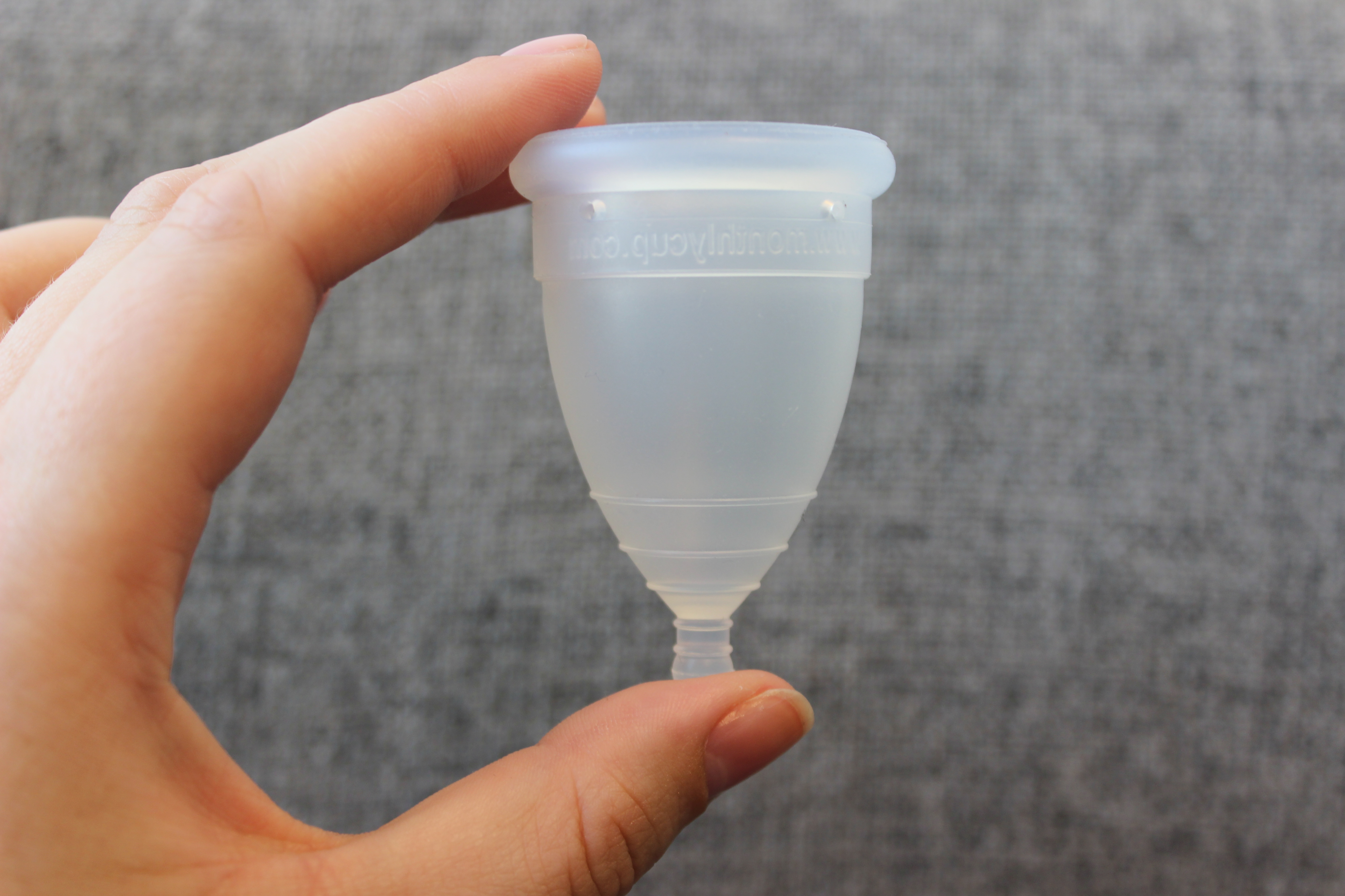 Monthly Cup Size 1